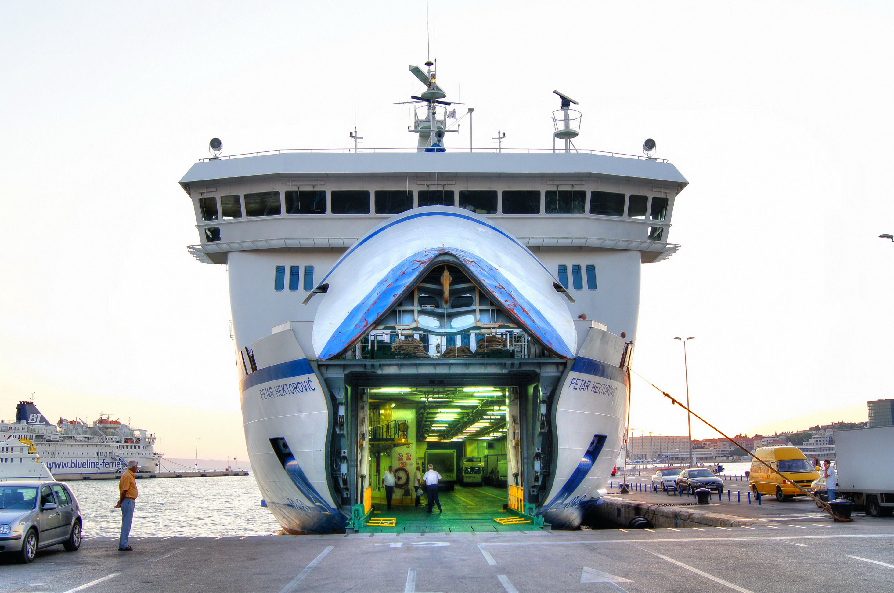 Petar Hektorović (ship, 1989) IMO 8702446; in Split, 2011-10-03; At St. Peter Quay.